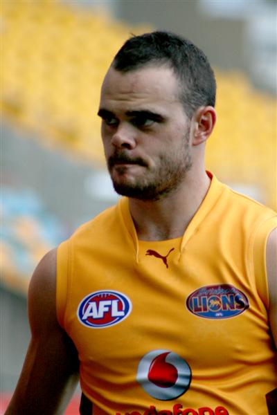 Ashley McGrath at a Brisbane Lions public training session in 2008.